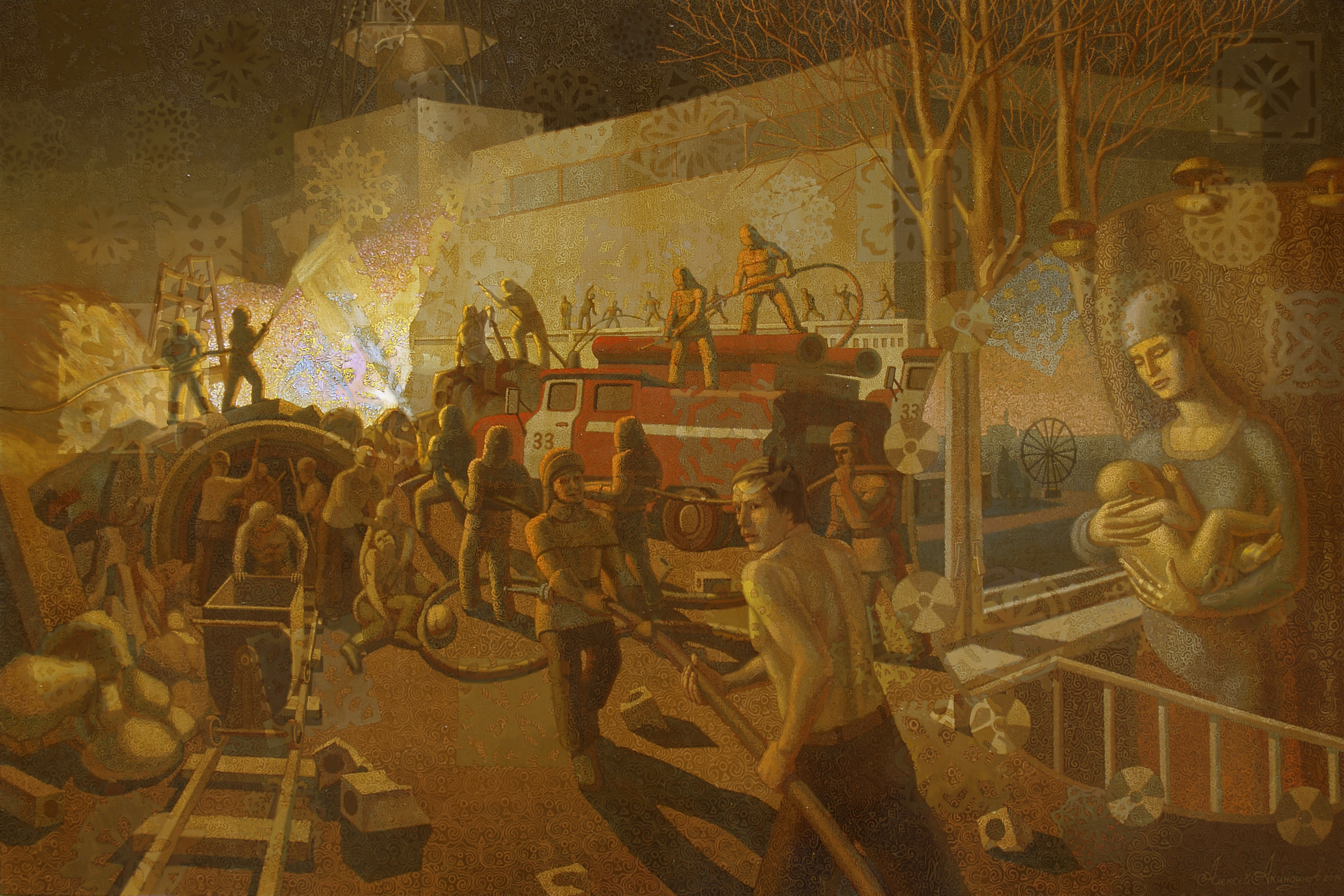 Alexey Akindinov's picture "Chernobyl. Last day of Pripyat" (Chernobyl accident on April 26, 1986). 120х180 centimeters, canvas, oil. 2013-2014 years of establishment.